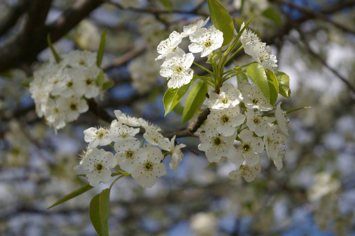 White Sakura Cherry Blossoms